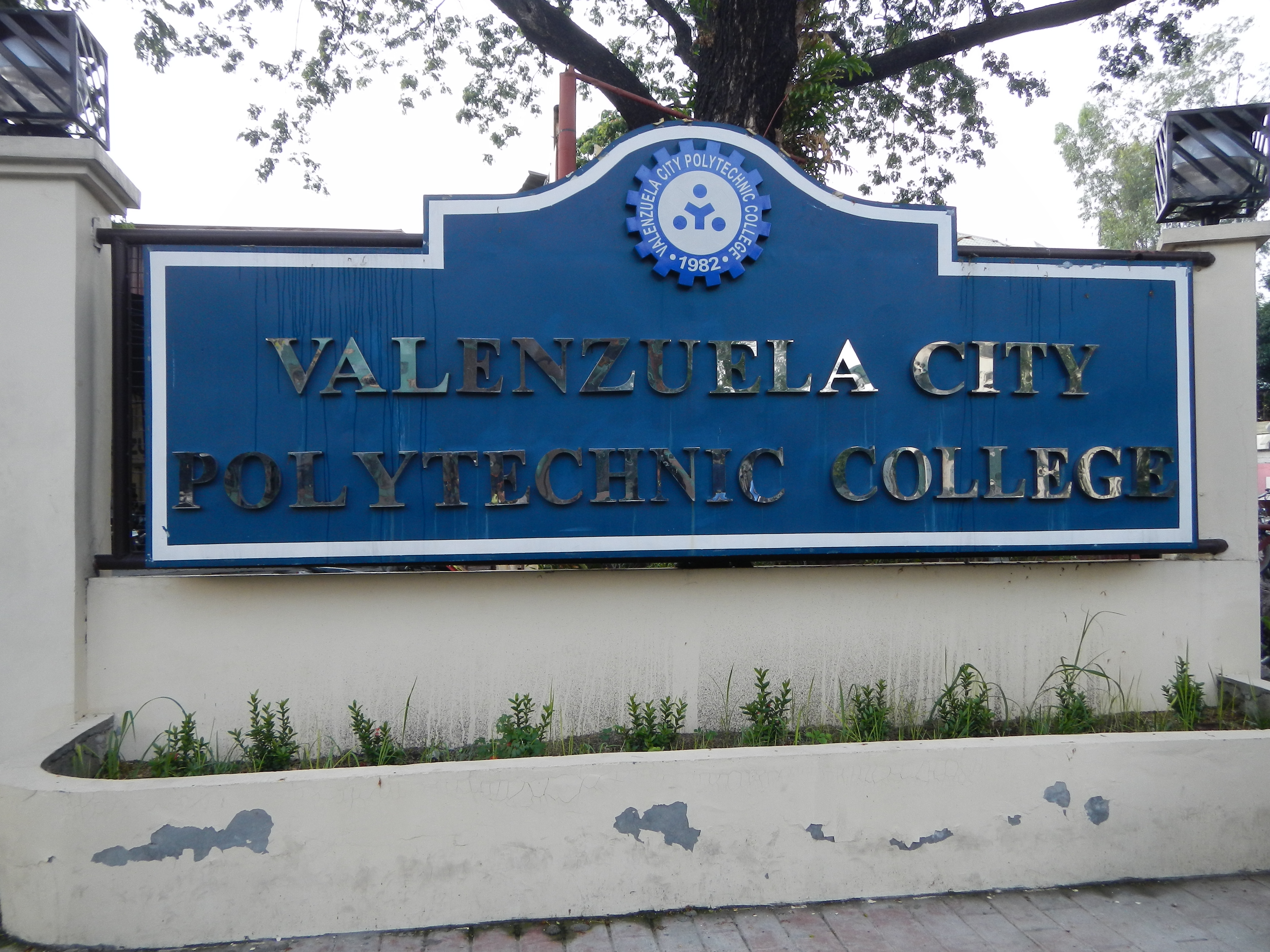 Valenzuela City Polytechnic College in Barangay Parada, Valenzuela City, Metro Manila - is under the (Division of City Schools–Valenzuela), Marulas Central School Compound, Pio Valenzuela St., Marulas, Valenzuela, PhilippinesDivision of City Schools–Valenzuela[1]).